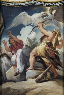 Copy by José del Castillo (1737 - 1793) of one of the frescoes by Luca Giordano (1634 - 1705) painted for the Casón del Buen Retiro in Madrid, commissioned by king Charles II. It is a copy of the fresco depicting Hercules and the birds of the Stymphalus (ca. 1697). The destroyed fresco was part of a series of 16 frescoes on the windowpanes of the Casón, representing the 12 Labours of Heracles plus 4 more scenes from Heracles' life. The copy was made in 1778 and later engraved by Nicolás Barsanti. It is kept in the museum of the Real Academia de Bellas Artes de San Fernando, Madrid Oil on canvas 32 cm x 22 cm